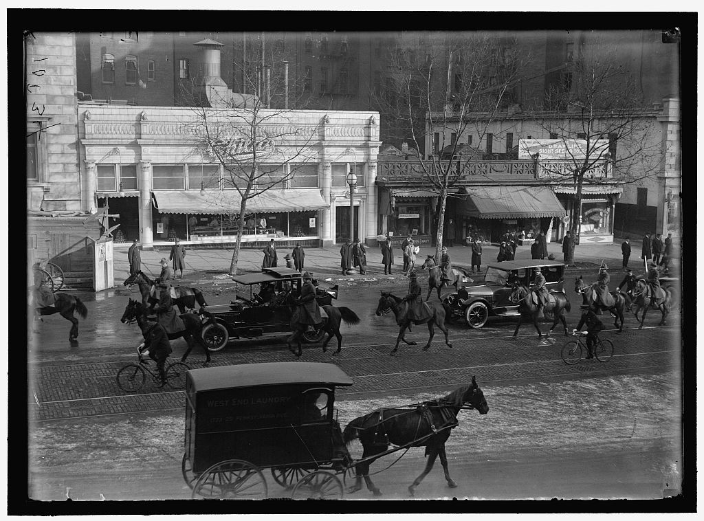 Exterior of Childs Restaurant at 1423 Pennsylvania Avenue NW, Washington, DC in 1917. Photo by Harris and Ewing. From collections of the Library of Congress